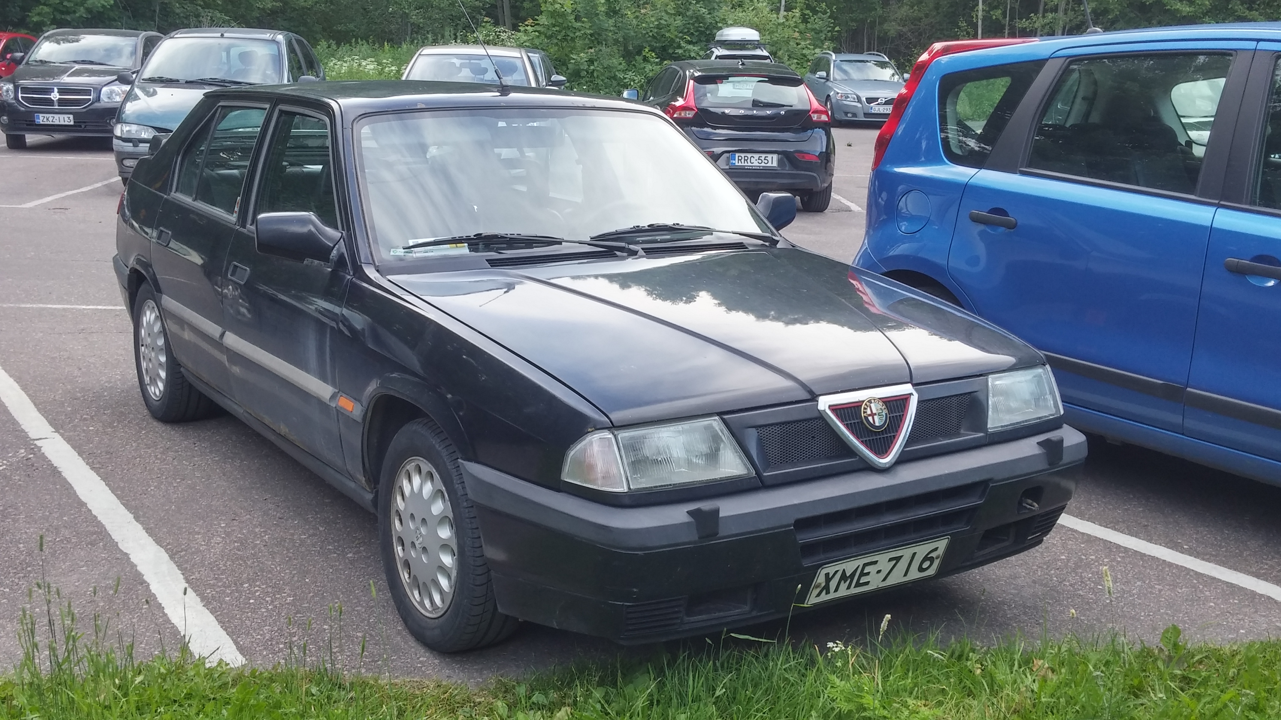 1990 Alfa Romeo 33